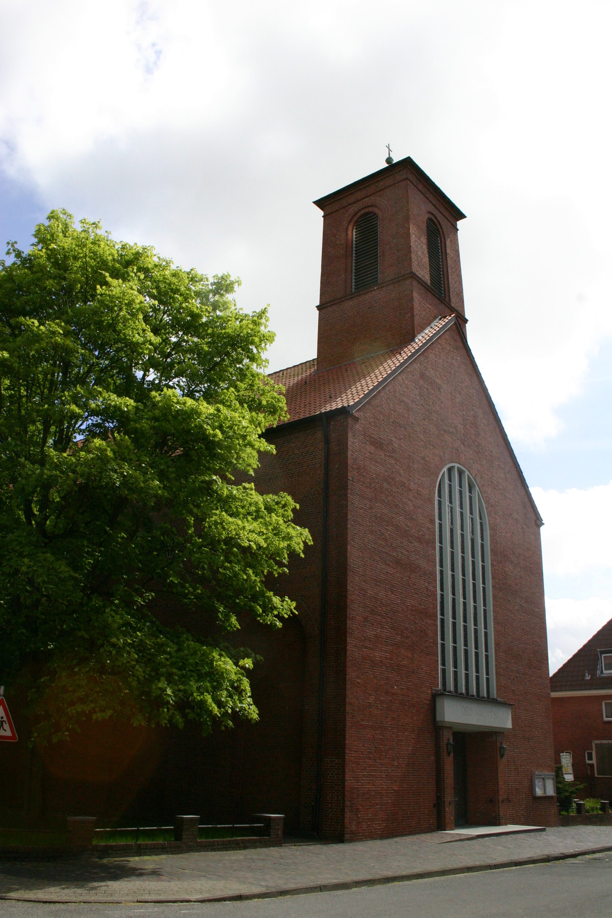 Catholic St. Michael's church in Emden, East Frisia, Germany